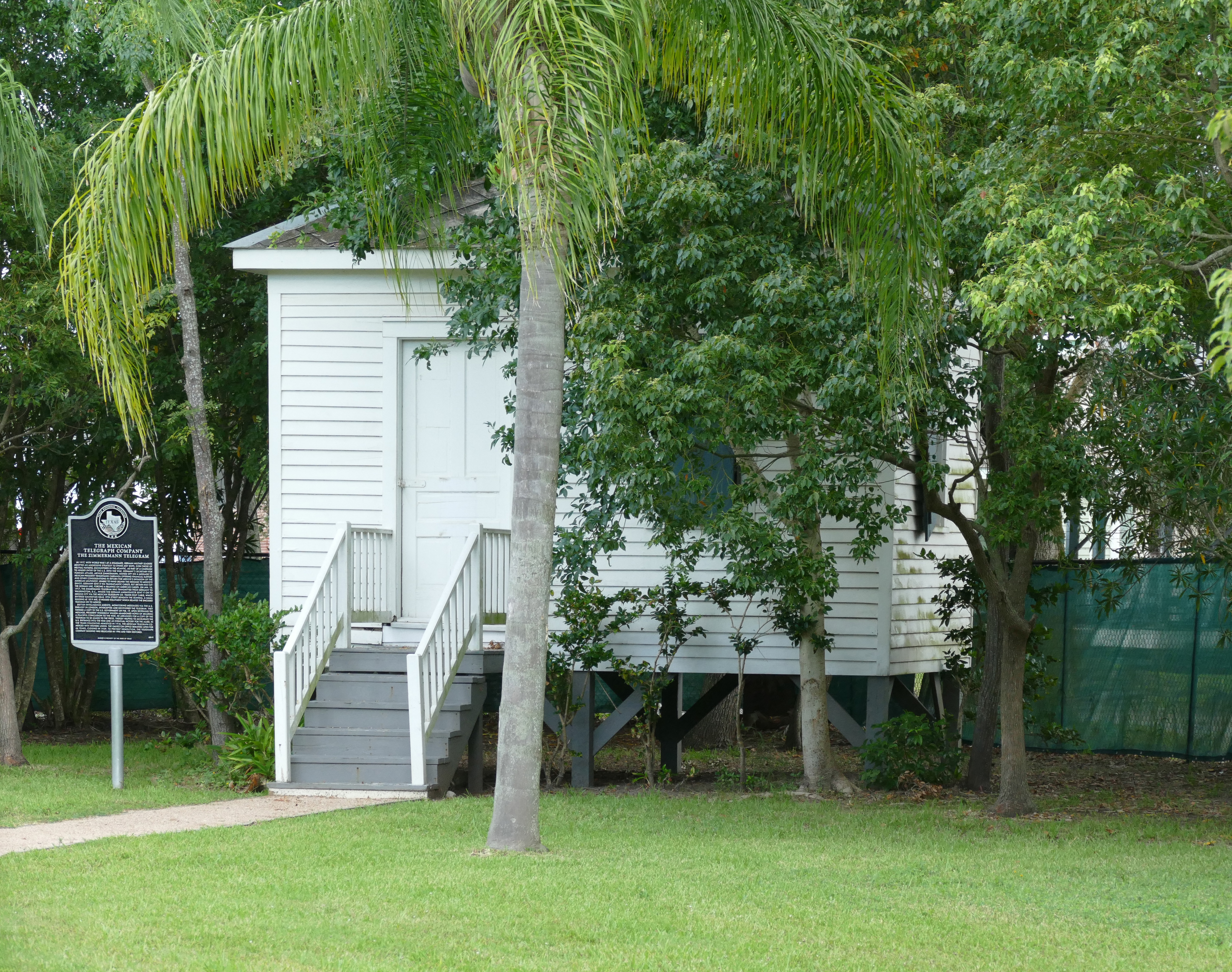 In 1917, with World War I at a stalemate, German military leaders adopted an aggressive strategy to strike any ships, even those of neutral nations, encountered in the Atlantic. As part of a campaign to hinder entry of the U.S. into the war, Germany's Secretary for Foreign Affairs, Arthur Zimmerman, signed off on a message to Mexican president Venustiano Carranza offering financial support and other considerations in return for Mexico's invasion of the American Southwest. Unable to hand deliver the message to Mexico's envoy, Germany sent it via transatlantic cables, but Britain had cut the German line, forcing a reliance on American cables. On Jan. 16, 1917, the Zimmerman telegram was transmitted from Germany to Washington, D.C., where the German Ambassador sent it on to Mexico City via the Mexican Telegraph Co. Trans-Gulf Cable, which entered Galveston near 19th Street beneath the seawall. A small building at 1819 Ave. O housed equipment which relayed the encoded telegram on to Mexico. British intelligence agents, monitoring messages via the U.S. Embassy in London, intercepted and deciphered the telegram. They handed a copy to the U.S.. Government on Feb 19. Upon reviewing the message, President Woodrow Wilson abandoned hopes of securing a peaceful conclusion to the war. He arranged for a copy of the telegram to be leaked to the press, thereby helping to accelerate the U.S. entrance into the war and the eventual victory for the allies. In the years following armistice in 1918, the Mexican Telegraph Co. merged with Western Union. The Galveston office remained open for 66 years closing in 1949. To prevent demolition, the telegraph company building was relocated in 1995 and then restored.ety.